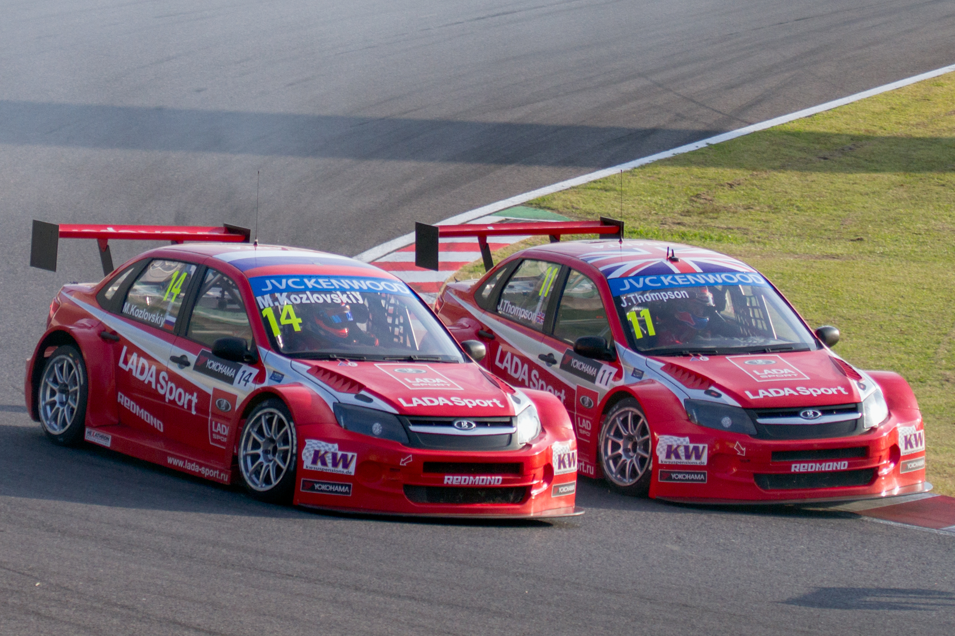 World Touring Car Championship 2014 Race of Japan: Mikhail Kozlovskiy (Lada Sport)